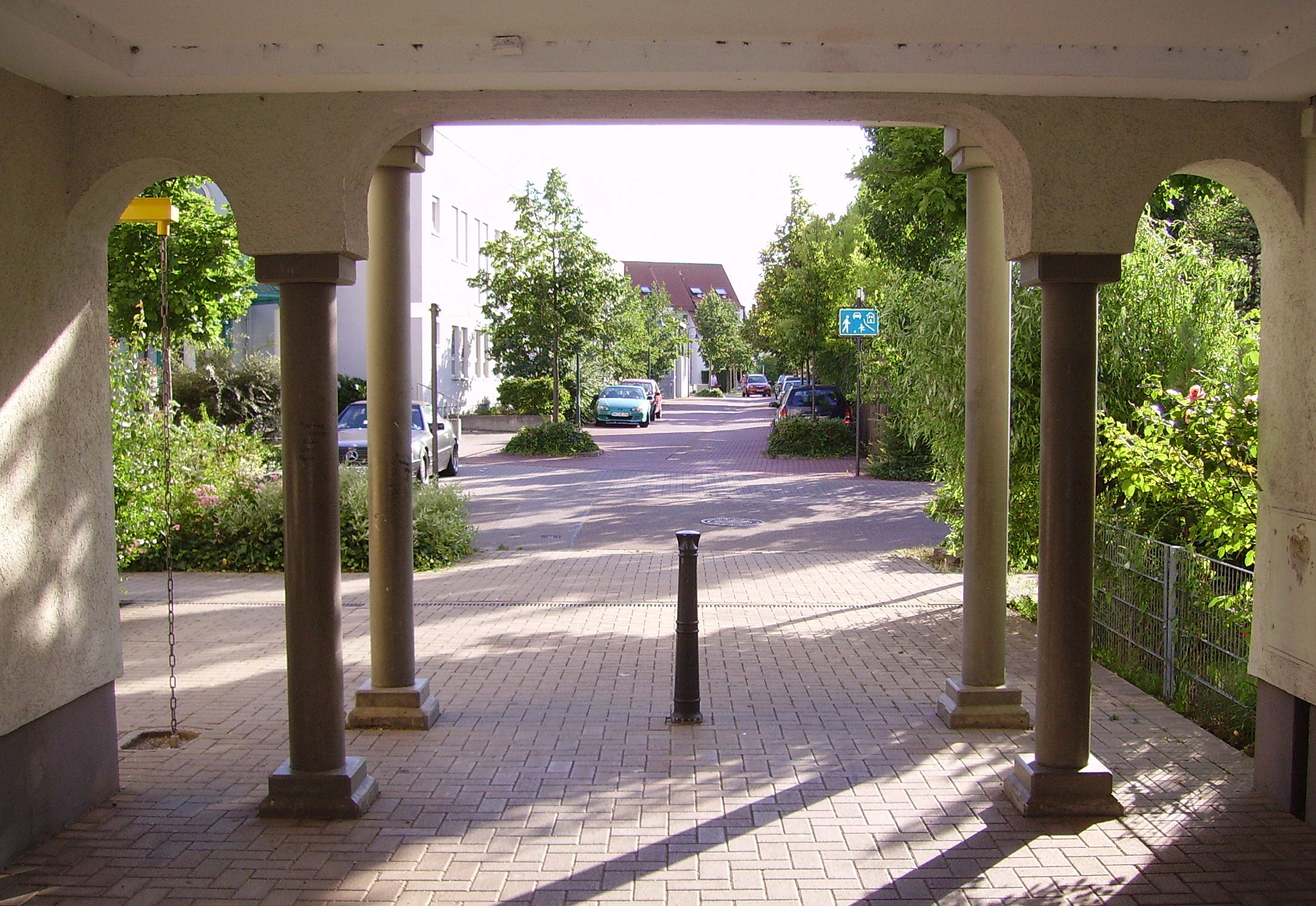 Ludwigshafen-Maudach, Germany